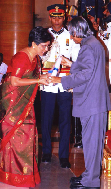 Rachel Thomas receiving the Padma Shri